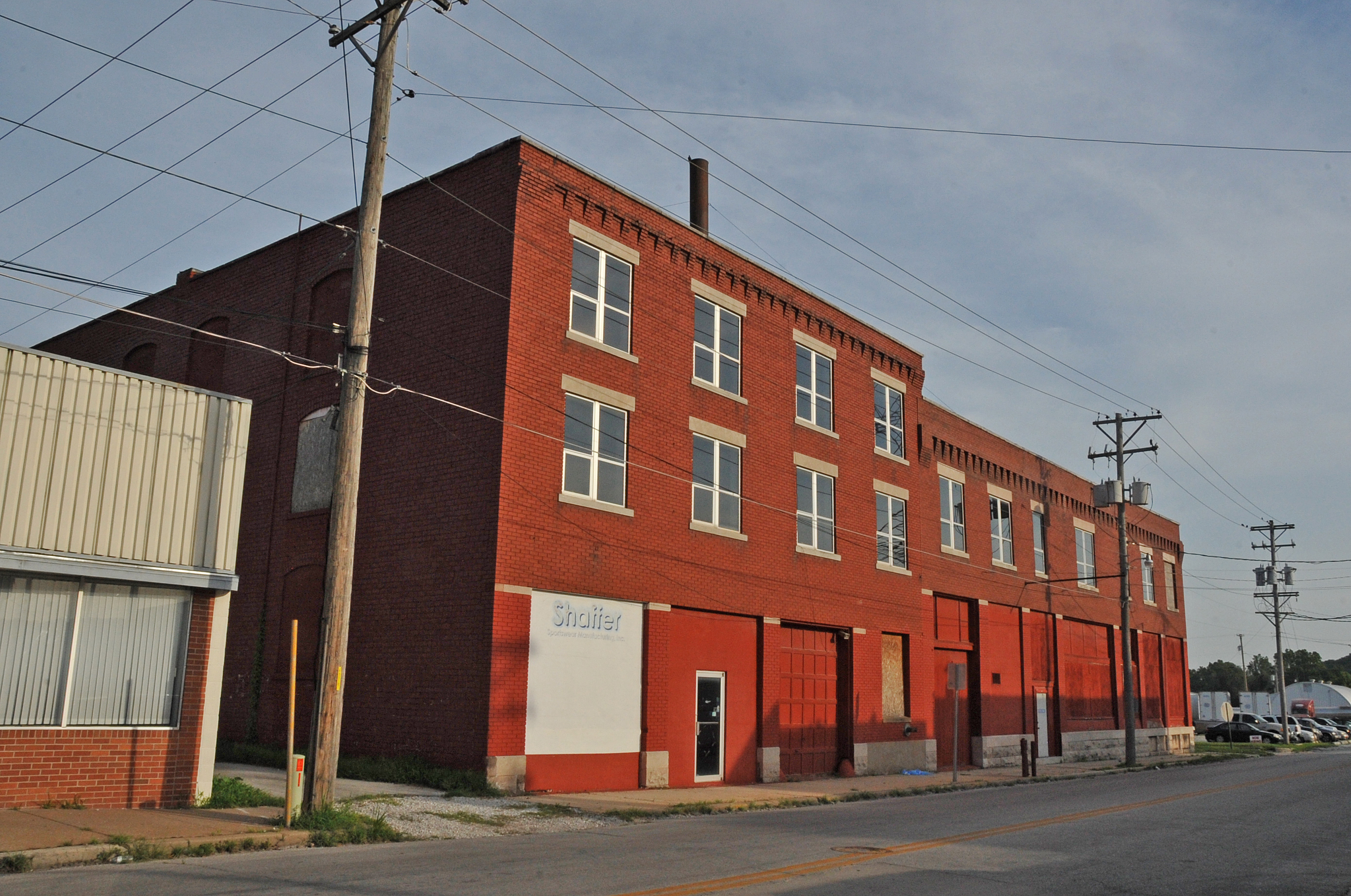 BUILT IN 1908 AND EXPANDED CIRCA. 1922 FOR THE NEOSHO WHOLESALE GROCERY COMPANY, ONE OF TWO WHOLESALE GROCERY COMPANIES KNOWN TO HAVE OPERATED IN NEOSHO IN THE EARLY 20TH CENTURY. THE BUILDING HOUSED THE GROCERY COMPANY UNTIL THE MID 1920S.